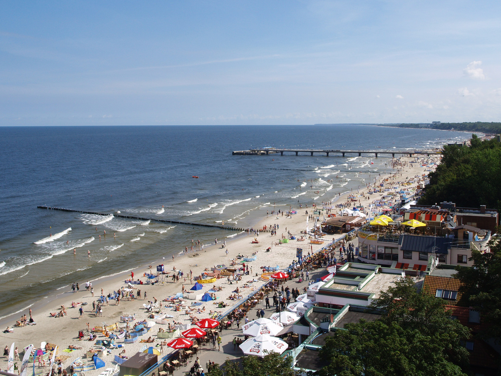 Beach in Kołobrzeg, seen from lighthouse